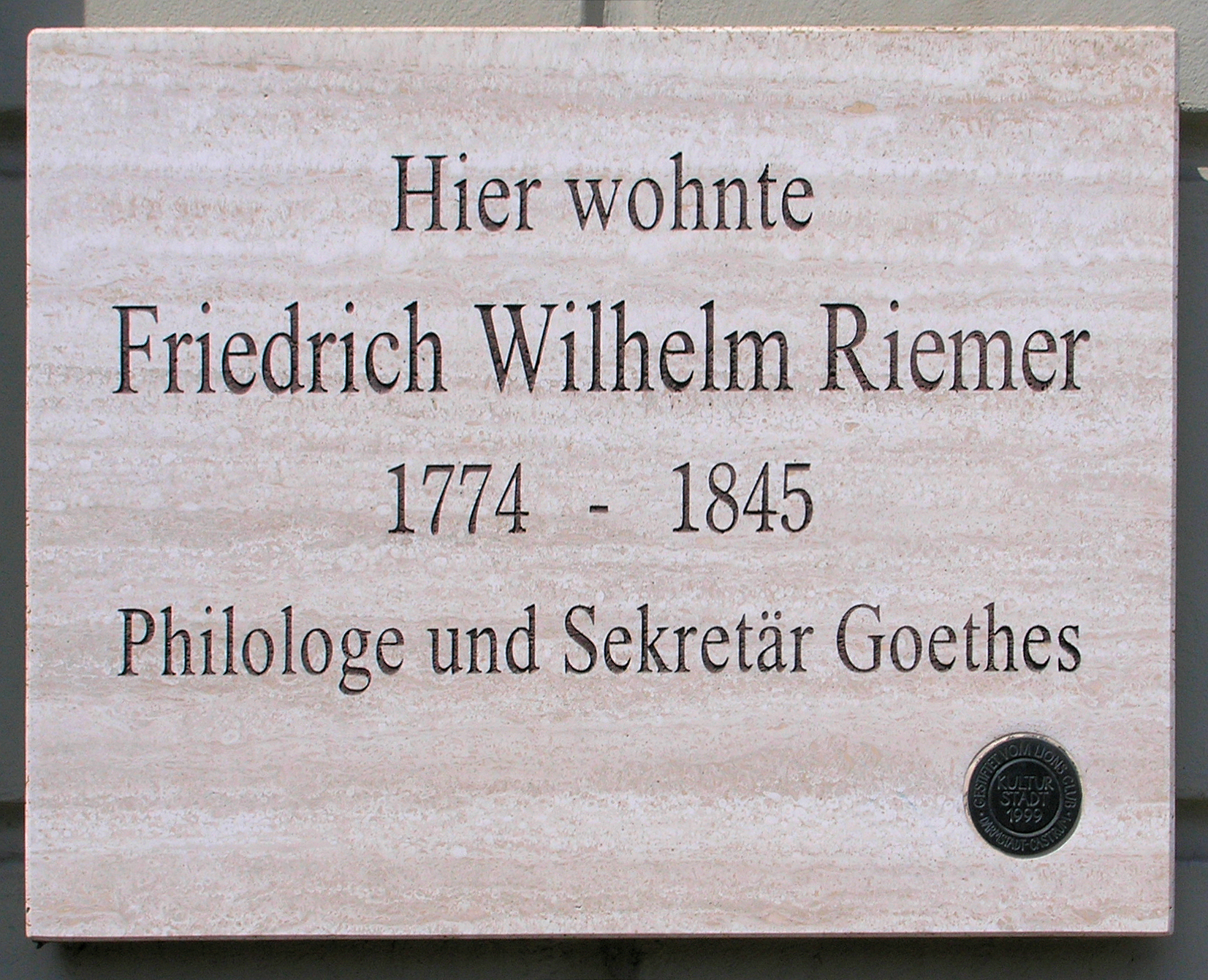 Memorial plaque, Friedrich Wilhelm Riemer, Amalienstraße 2, Weimar, Germany Koordinate:52°58′36″N 11°19′39″E / 52.97667°N 11.3275°E